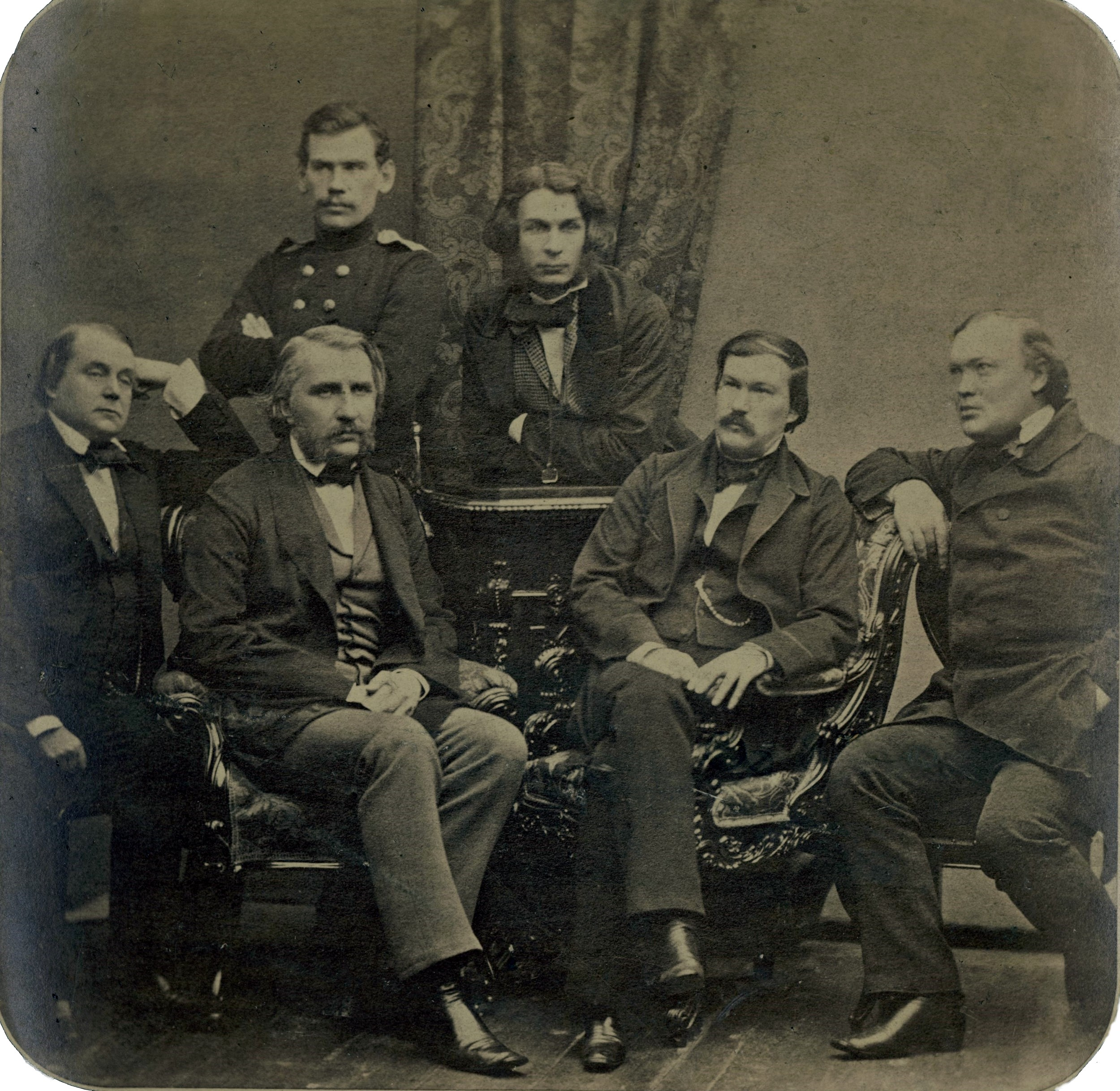 Top row (from left): Leo Tolstoy, Dmitry Grigorovich, Bottom row (from left): Ivan Goncharov, Ivan Turgenev, Alexander Druzhinin, and Alexander Ostrovsky